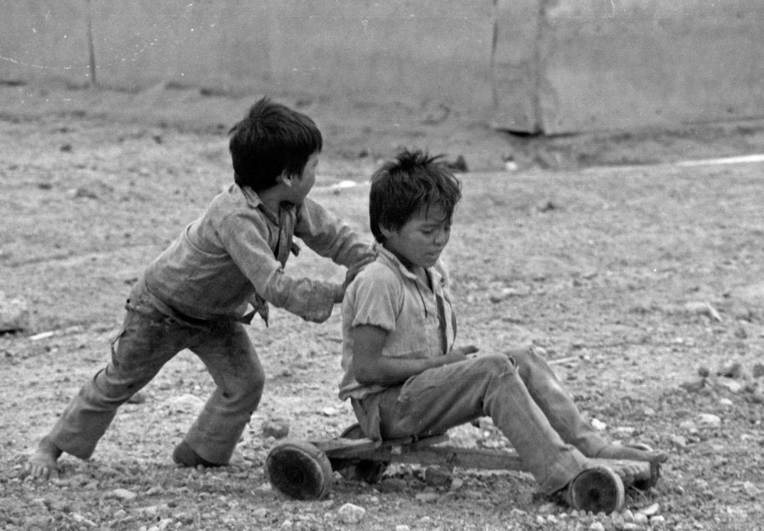 The first repatriation of refugees from the Mesa Grande camp in Honduras, returning to El Salvador through the El Poy border in October 1987